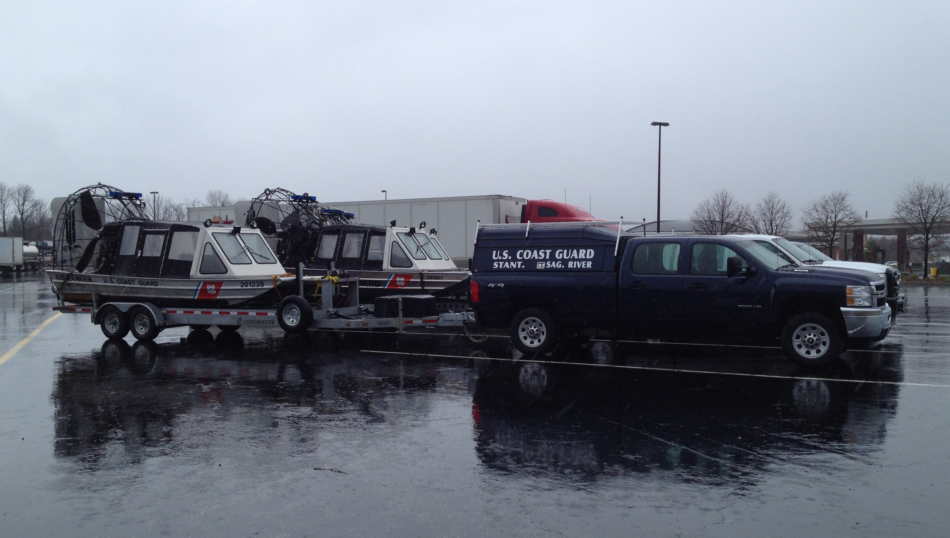 INTERSTATE-80, Ohio - Government vehicles hauling Coast Guard airboats are parked at a rest area in Interstate-80 in Ohio as 9th Coast Guard District crews deploy to the East Coast to support Hurricane Sandy response operations Oct. 30, 2012.The airboats, traditionally used for ice rescues in the Great Lakes region, can operate in shallow water and are en route to Philadelphia for further tasking.U.S. Coast Guard photo by Chief Warrant Officer Sean McCarthy.